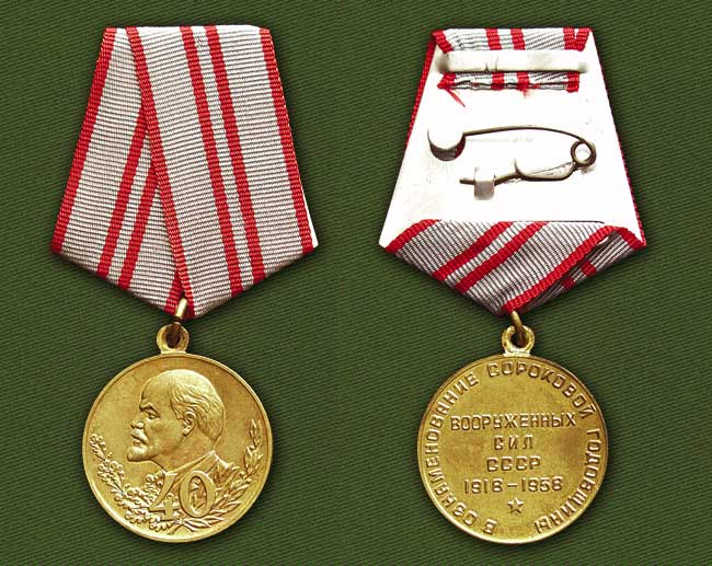 40 Years Since The Creation Of The Soviet Armed Forces medal.